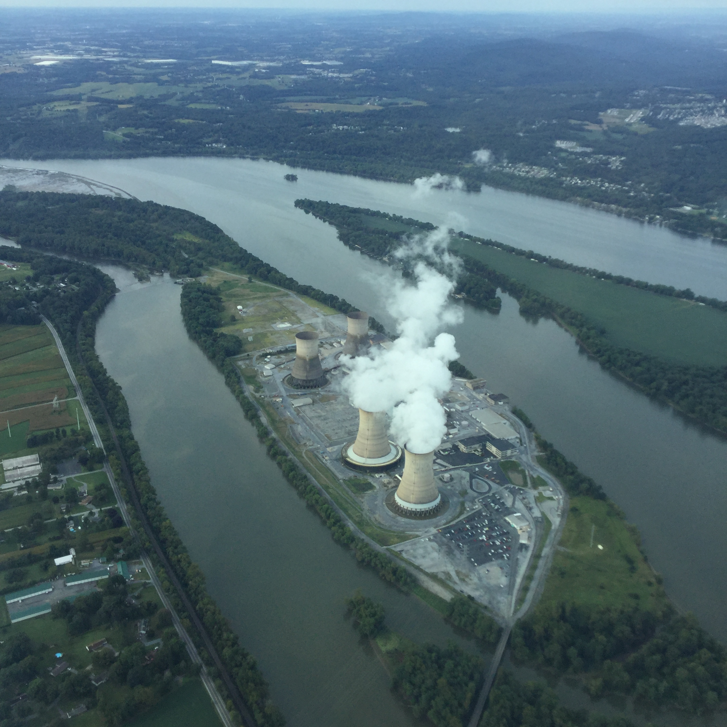 Aerial view of Three Mile Island